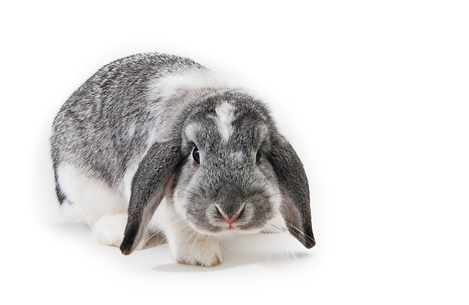 Lop bunny with grey coloring